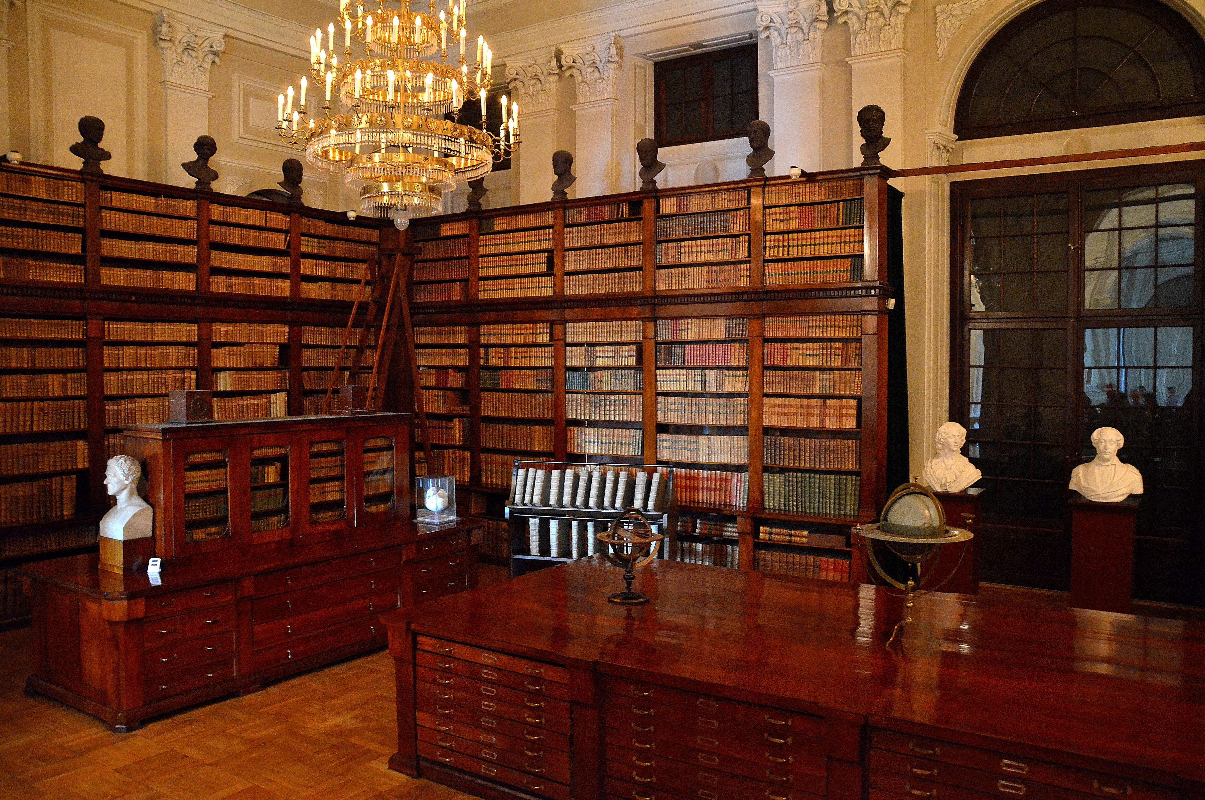 Book collection of Wilanów Library at Krasiński Palace in Warsaw